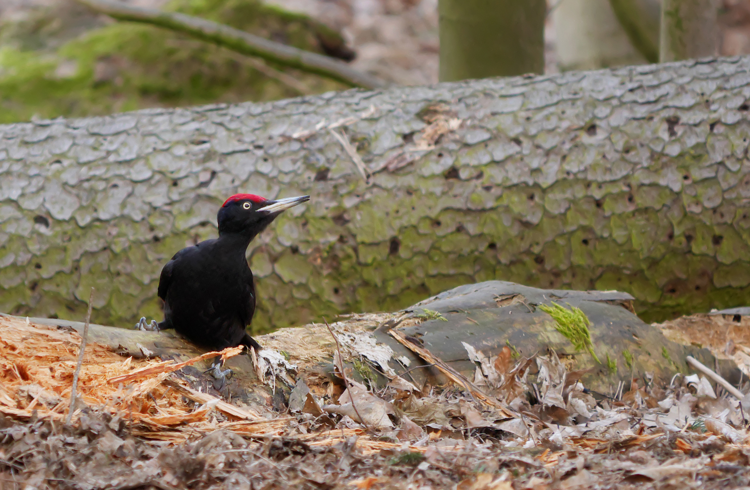 Black Woodpecker Dryocopus martius male, Parc de Woluwé, Brussels, Belgium. Panasonic GX7 + Panasonic Lumix G Vario 100-300, O.I.S